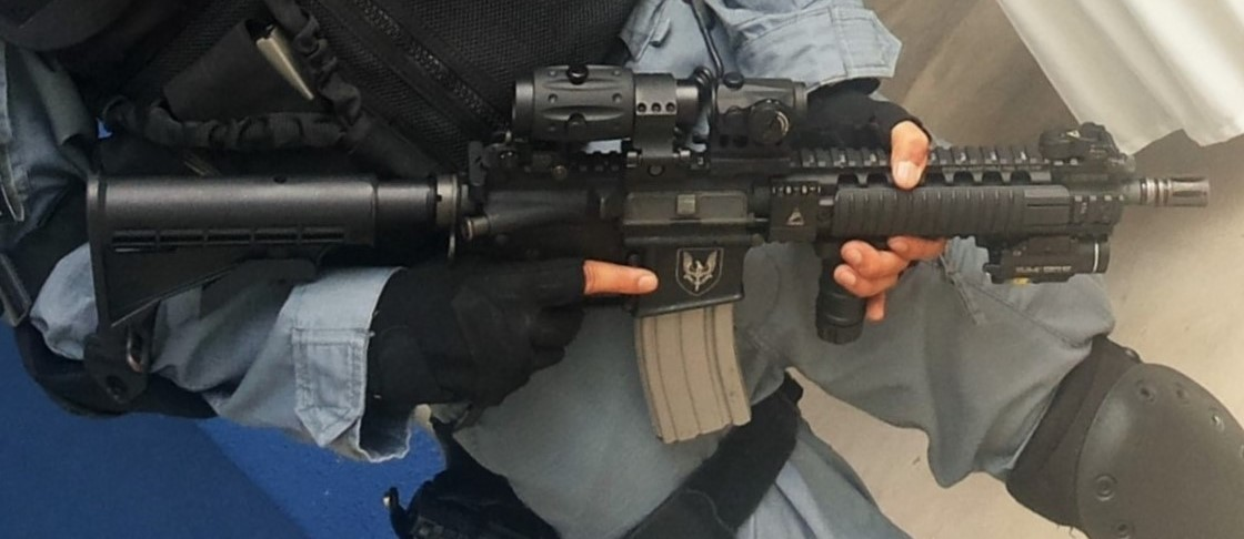 An American-Philippines made FERFRANS Special Operations Assault Rifle, belonging to Malaysia's UTK Police.